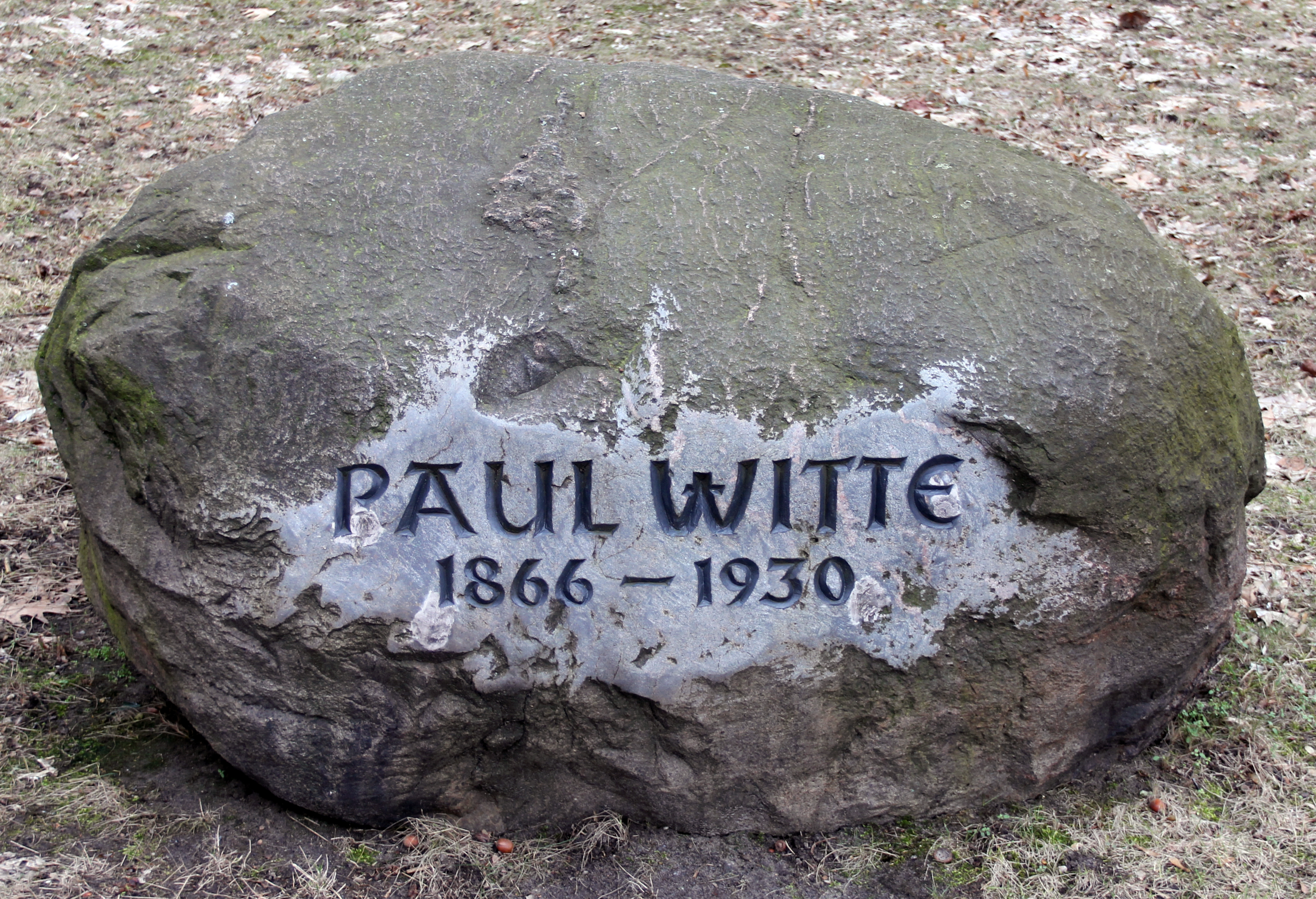 Memorial stone, Paul Witte, Eichborndamm 215, Berlin-Wittenau, Germany